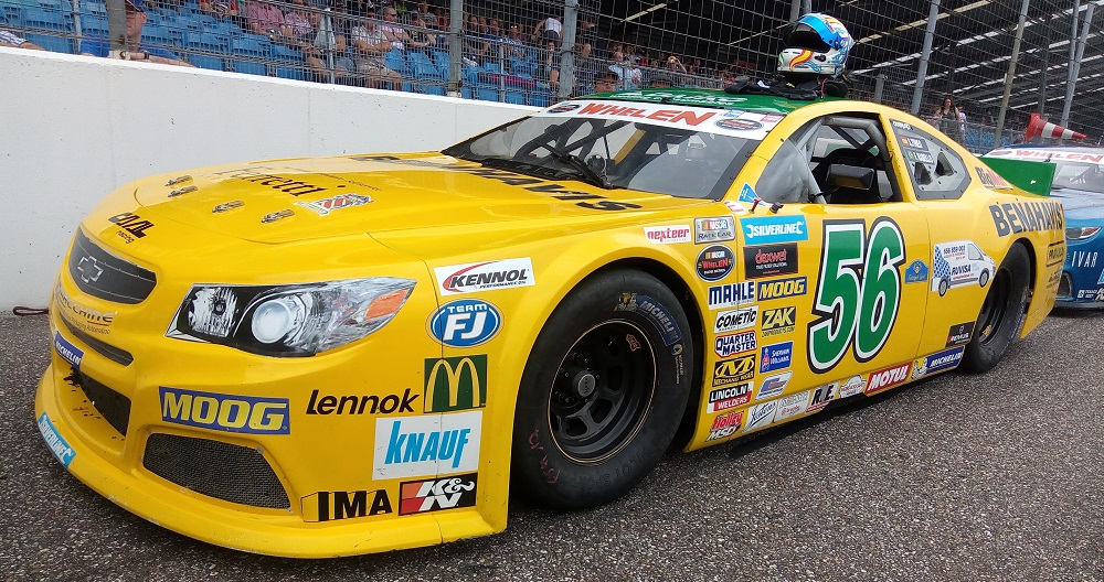 The car used by Salvador Tineo Arroyo at Raceway Venray in the 2017 NASCAR Whelen Euro Series.